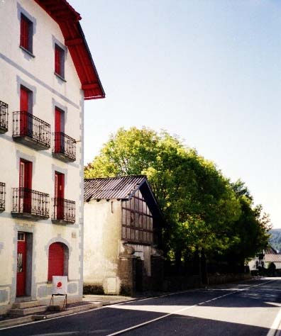 Auritz-Burguete, Navarre